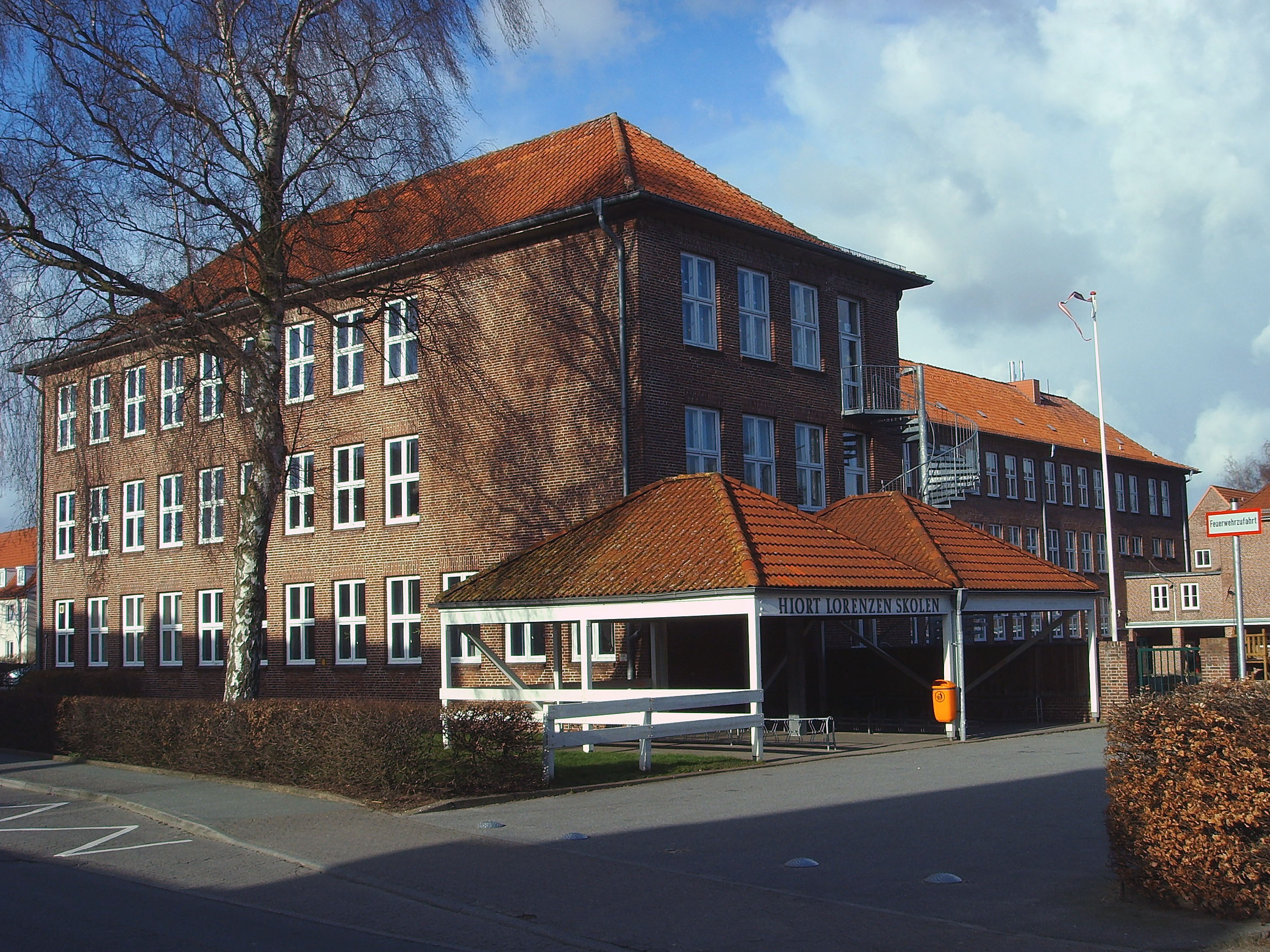 Hjort Lorenzen Skolen, a school for the danish minority in Schleswig